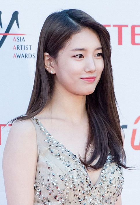 Suzy at Asia Artist Awards red carpet, 16 November 2016.